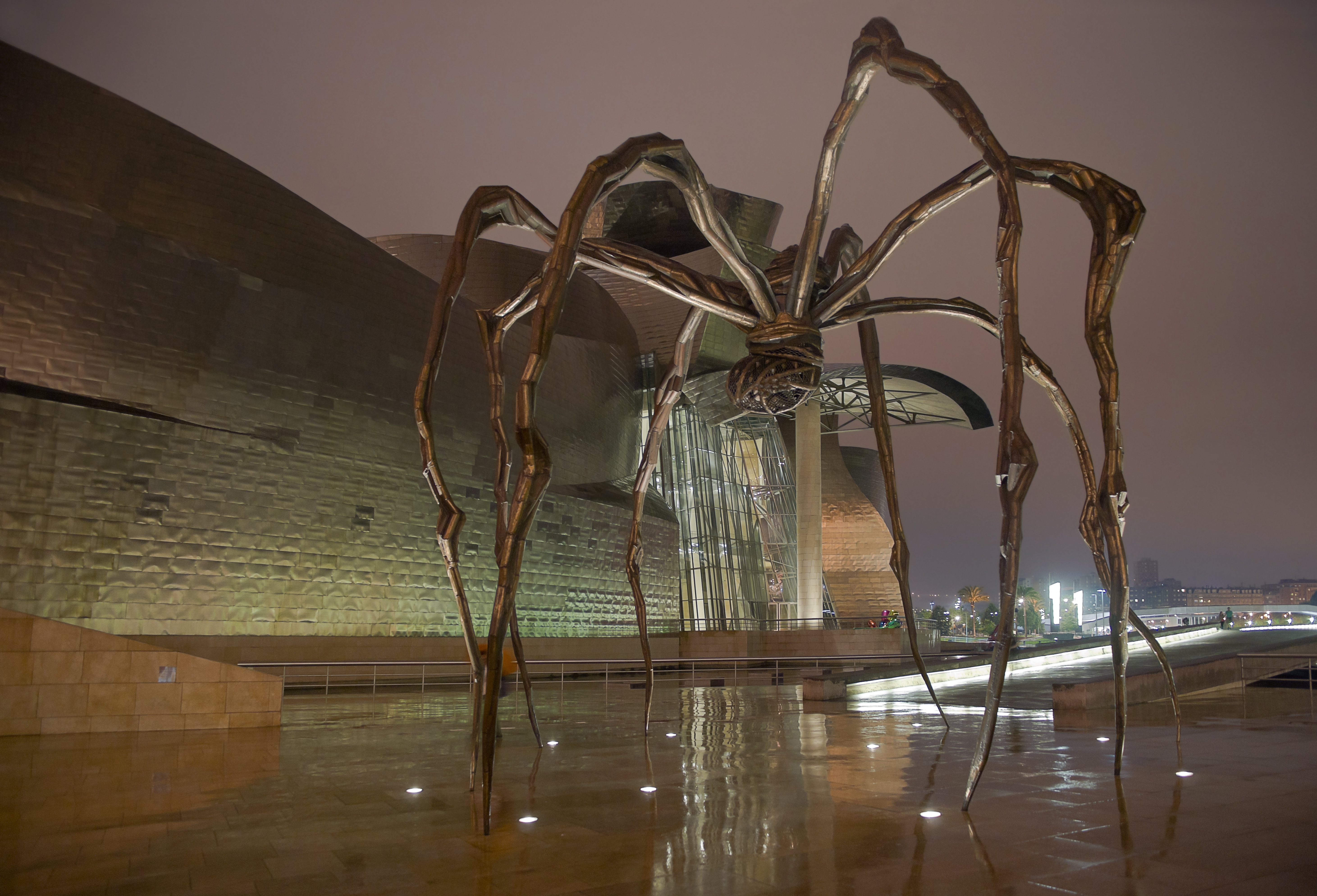 The spider sculpture Maman by Louise Bourgeois Locality: Guggenheim Museum Bilbao Spain.